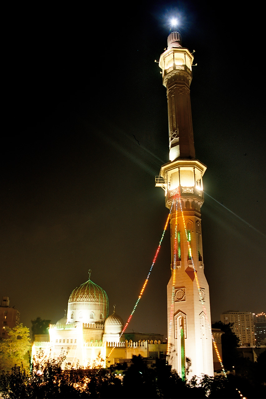 A mosque in Mohandessin during the month of Ramadan, Cairo, Egypt.